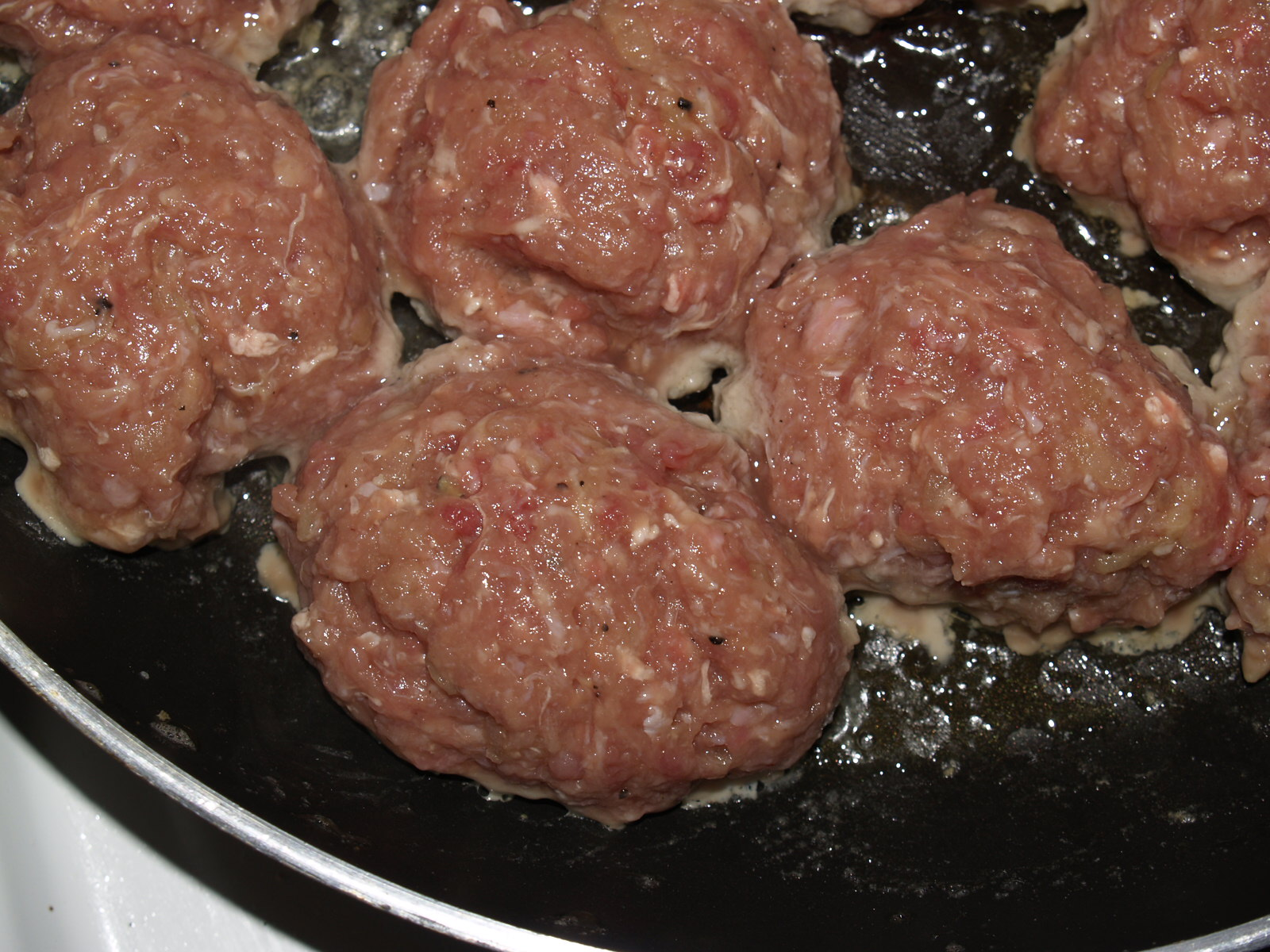 Frying of Danish meat balls (frikadeller)